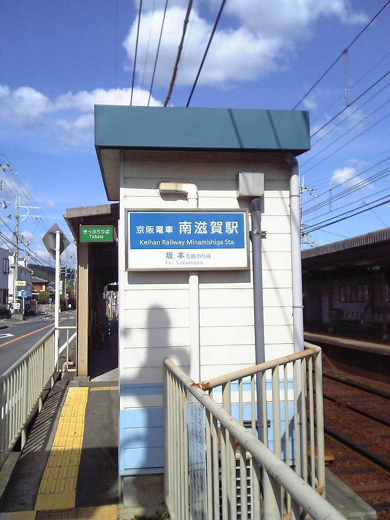 Keihan Minamishiga Station, entrance to the platform for Sakamoto